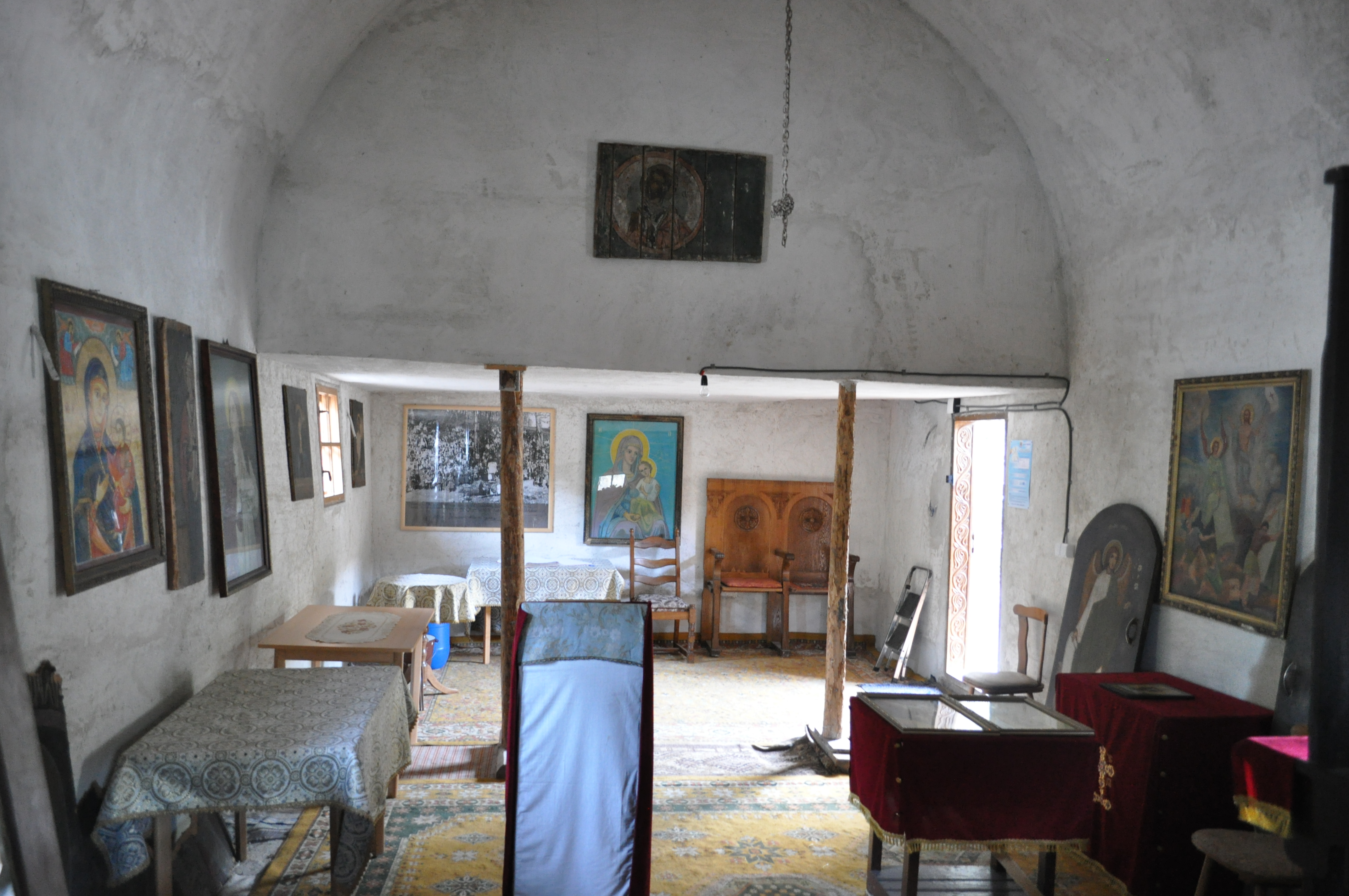 the Izbuc Orthodox monastery near Călugări village, Codru-Moma Mountains, Romania